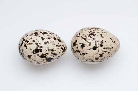 Chatham oystercatcher, Haematopus chathamensis, (AM LB12833) eggs from the collection of Auckland Museum